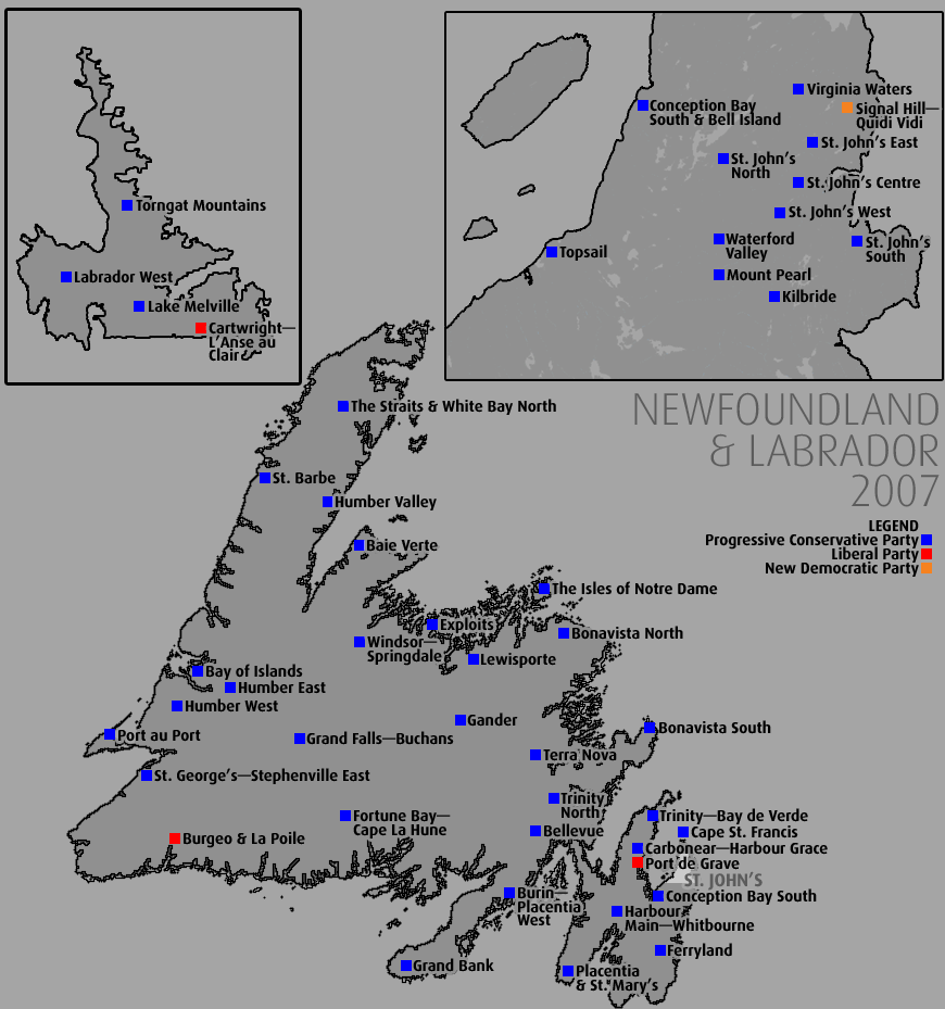 Riding-by-riding map of the Newfoundland and Labrador general election, 2007. Alternate version: image:tnl_elections_2007.png (en français).